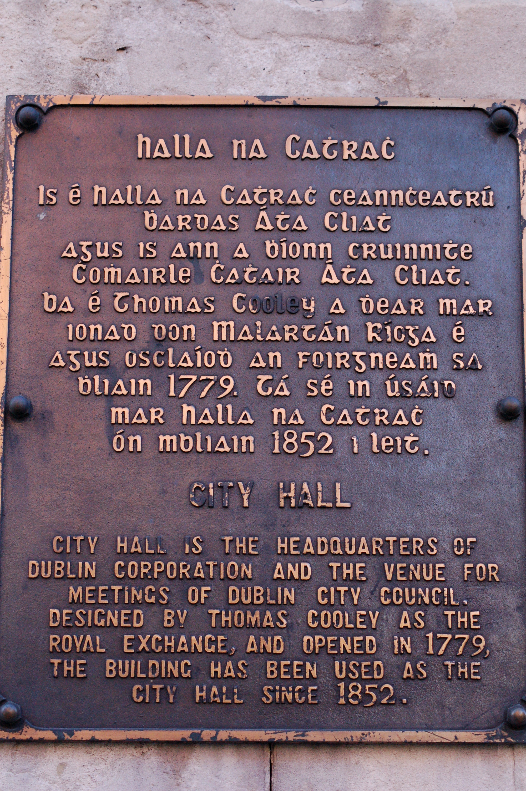 Information board about Dublin City Hall in Irish (using Gaelic type) and English, close to Dublin Castle